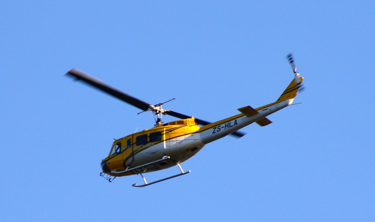 Working On Fire Bell UH-1H Iroquois ZS-HLA